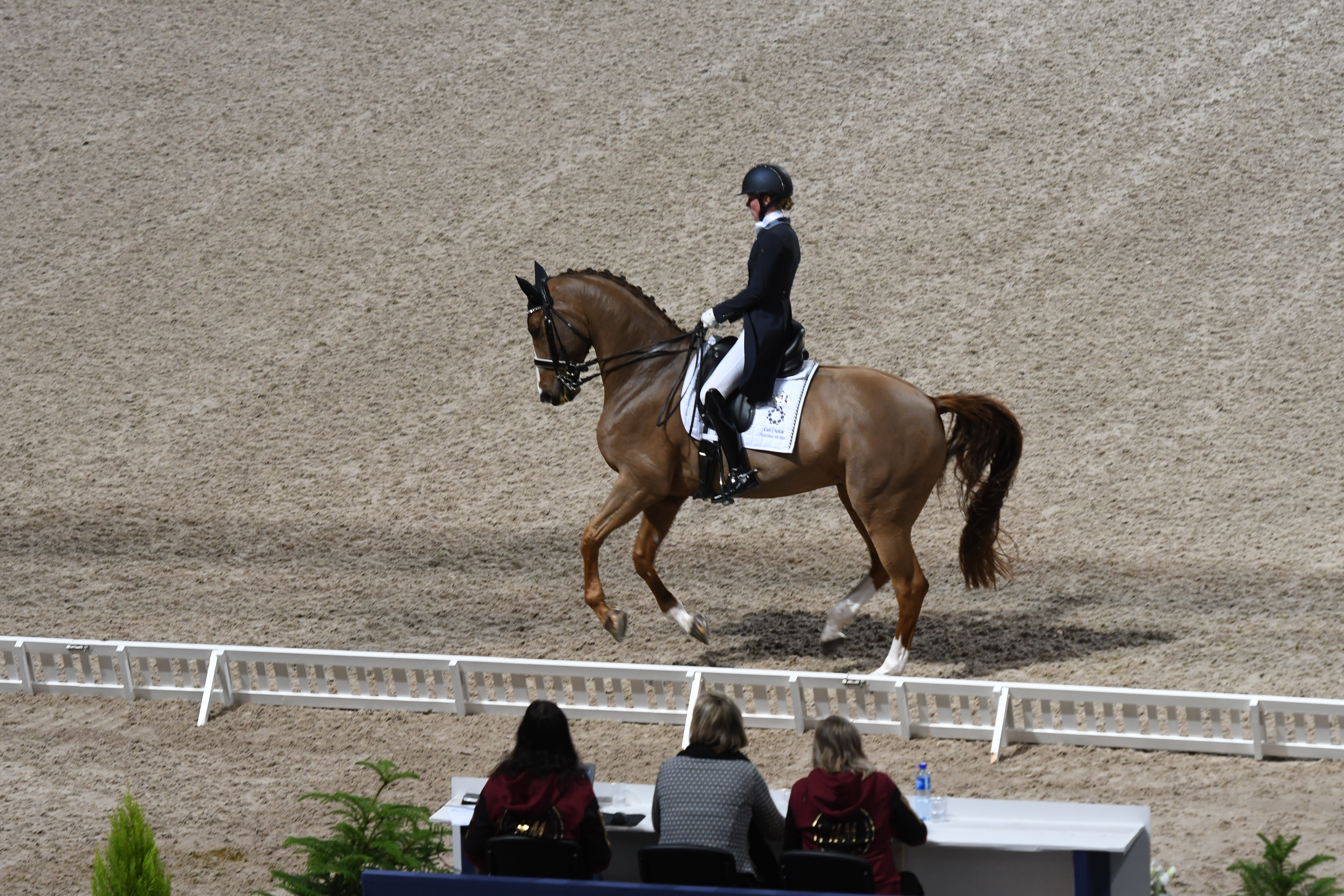 Anna Österberg and Rolecz during Nat D - Dressage PFS Kür (Dressage Power Future Stars) during Sweden International Horse Show 2018.